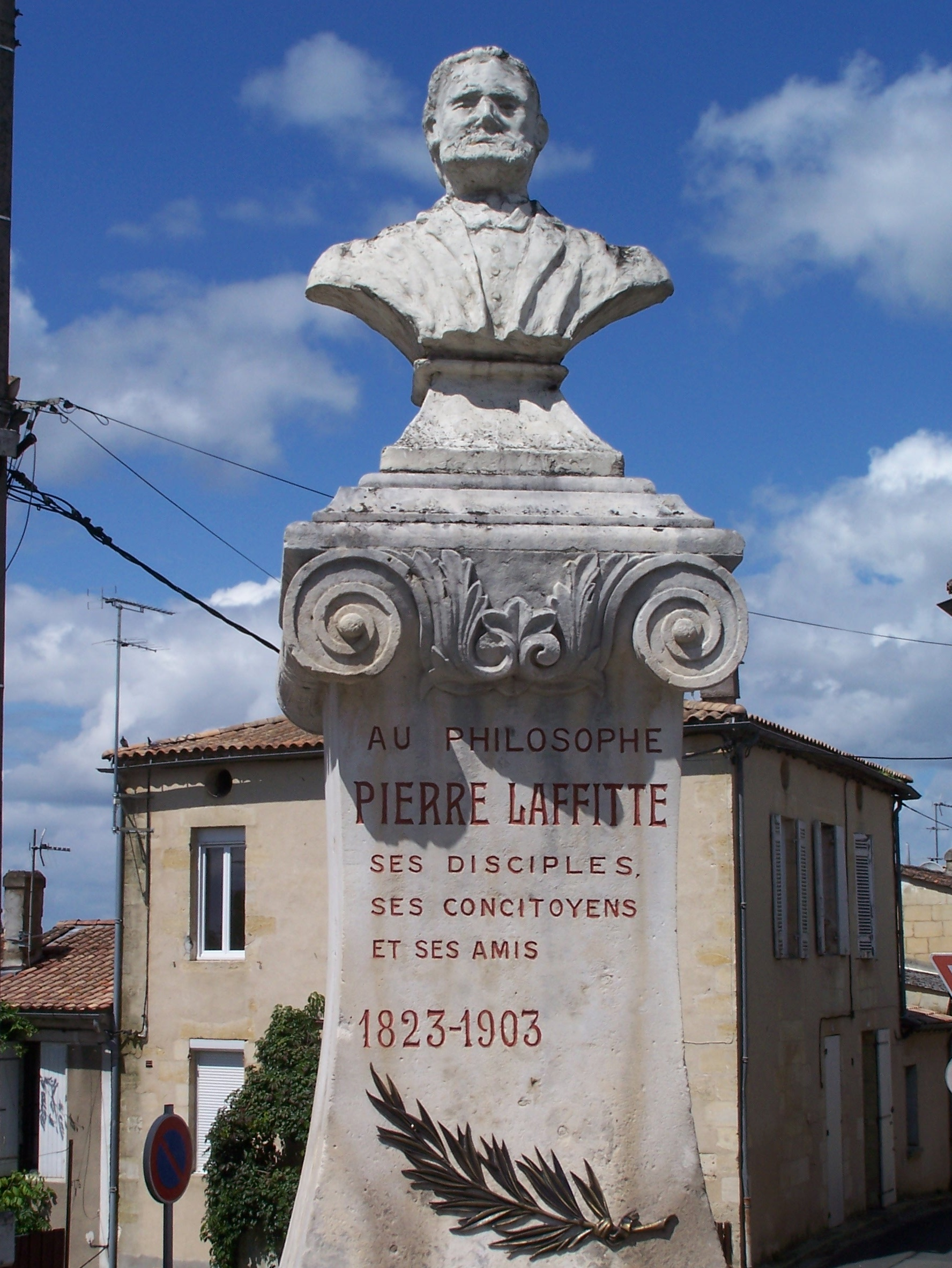 Bust of Pierre Laffitte in Béguey (Gironde, France)